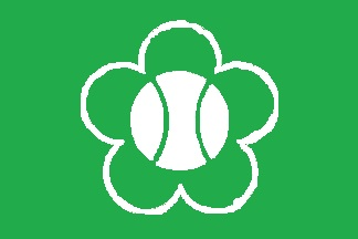 Flag of Komoro, Nagano